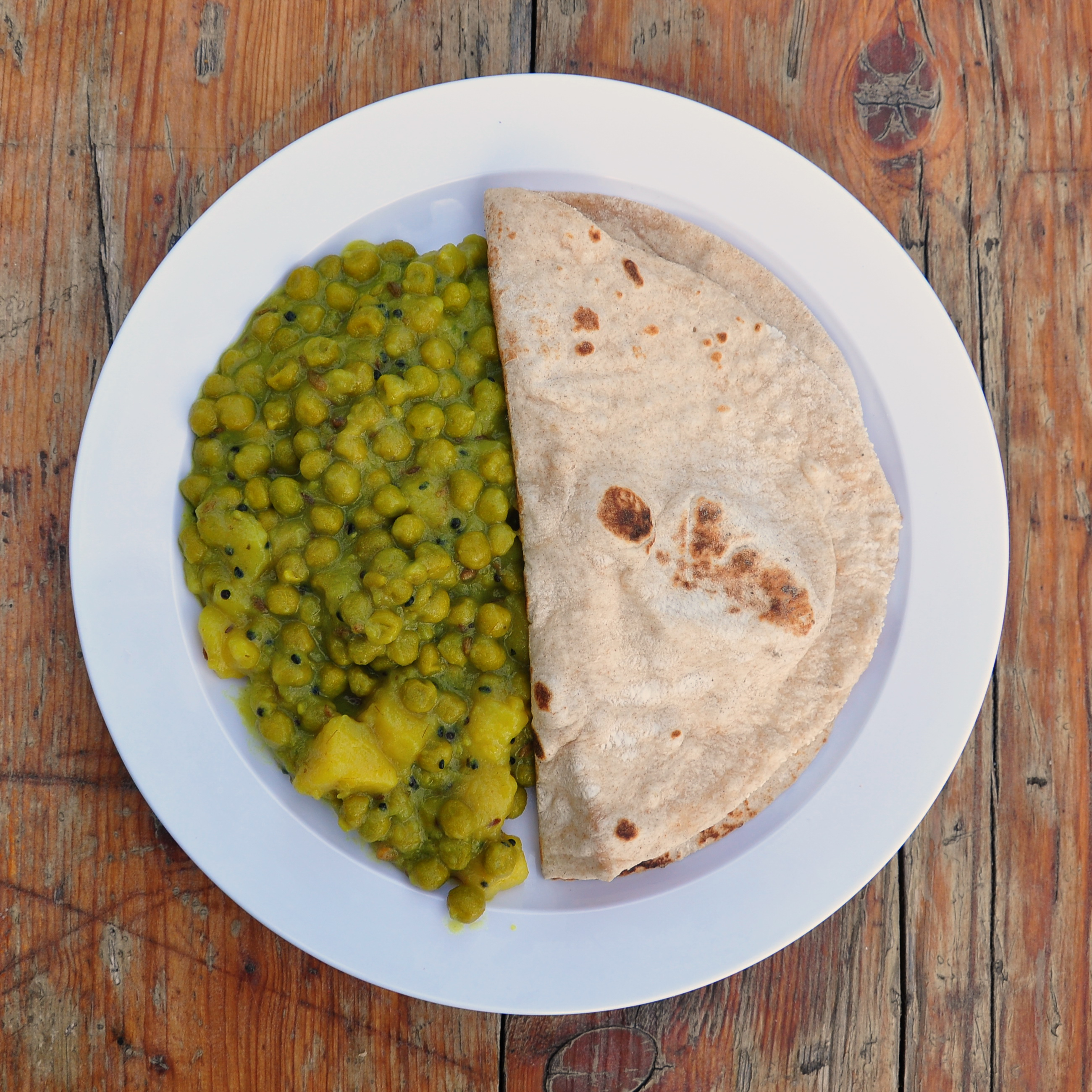 Theaterspektakel 2010 in Zürich-Wollishofen (Switzerland) : Chapati, Linsen- und Karotten-Curry